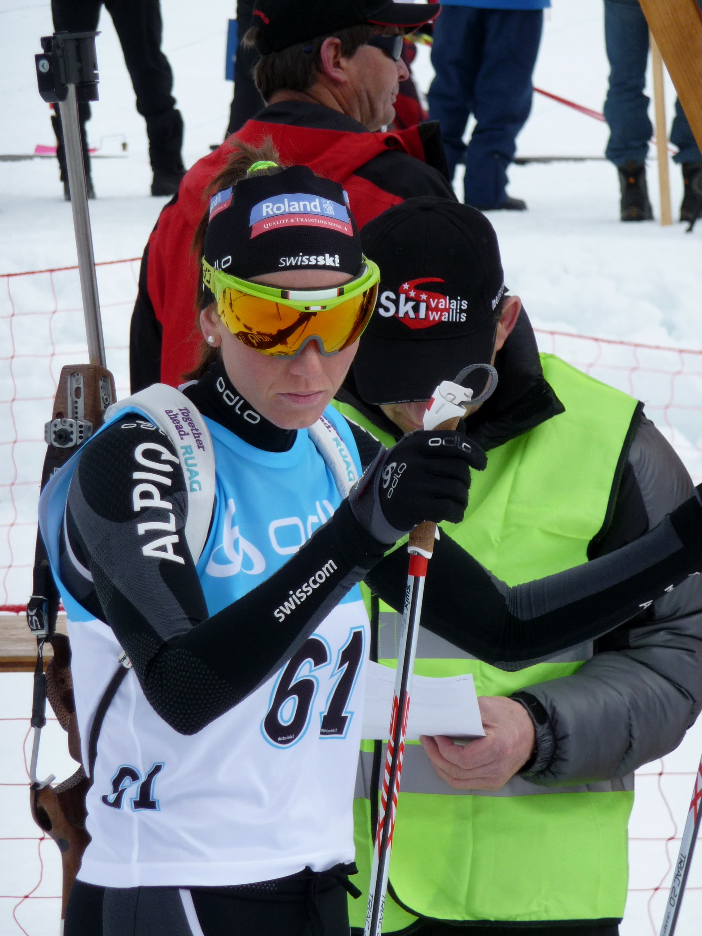 Swiss biathlete Selina Gasparin at National Championships in Biathlon 2013 (Sprint Race) in La Lécherette, Switzerland